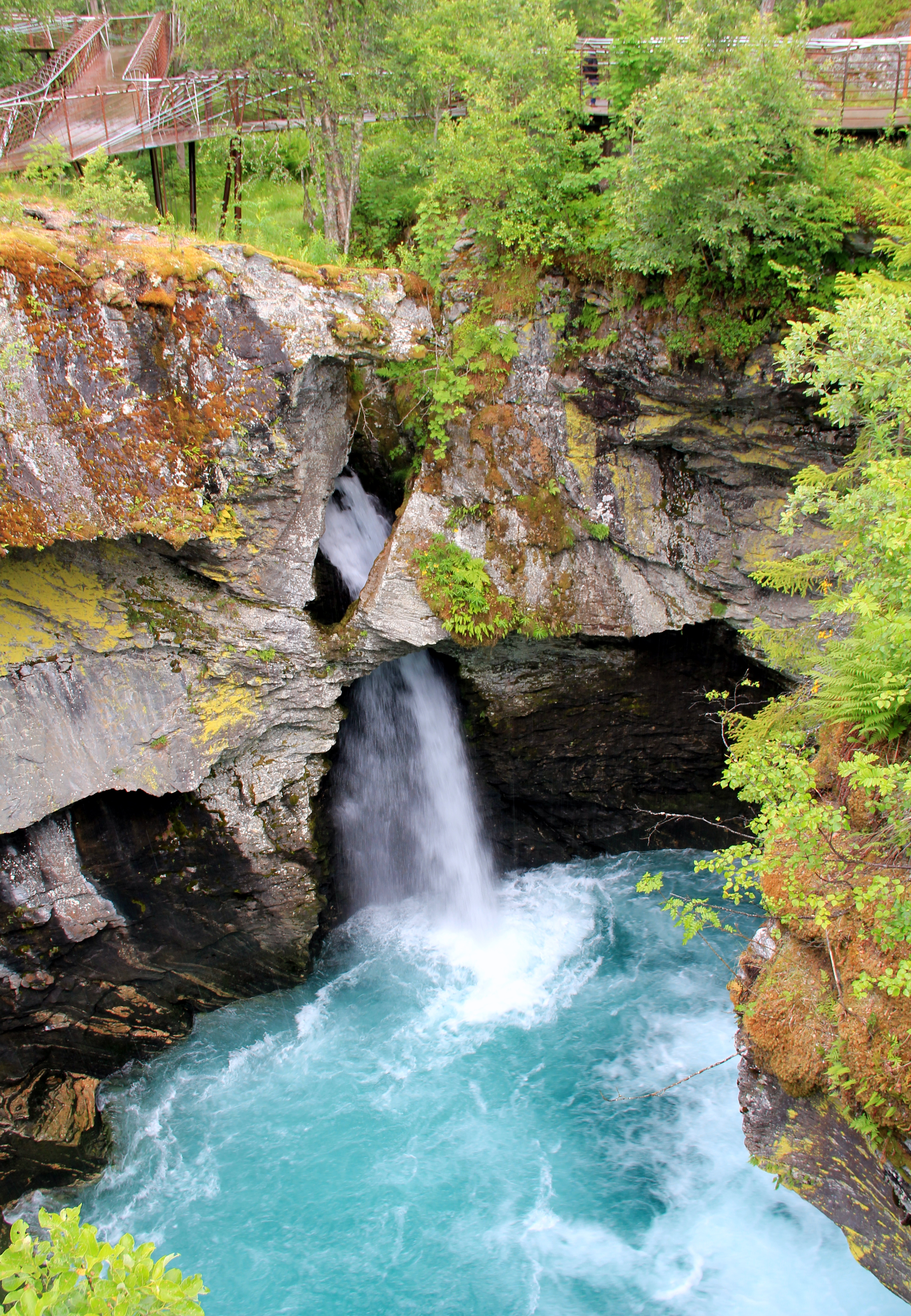 Gudbrandsjuvet, waterfall in Norddal, Norway